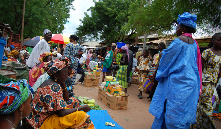 Shopping at central market in the city of Kolda, the capital of Kolda Department, in Kolda Region, Senegal, West Africa. Photograph by Brady Brim-DeForest.